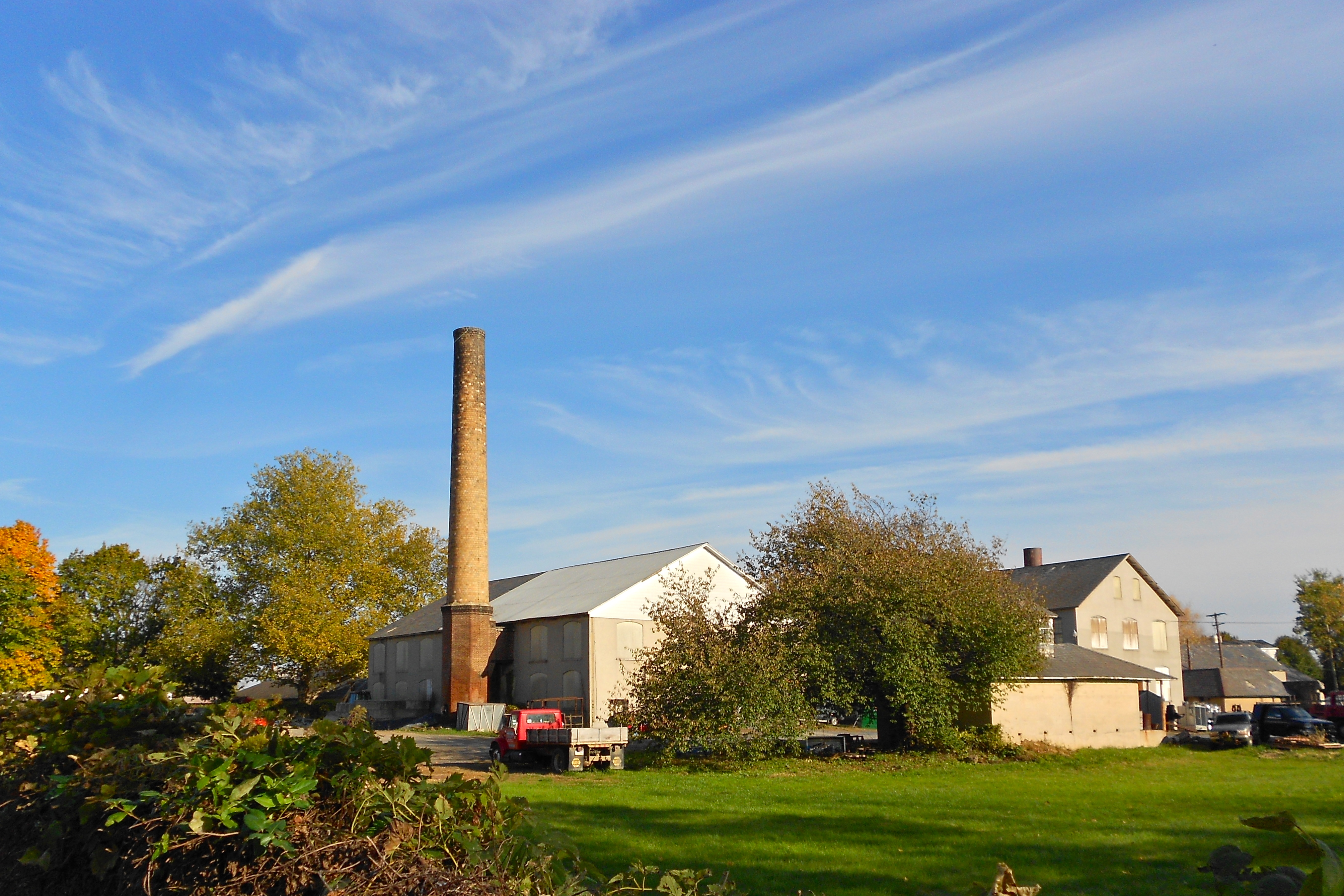 Dent Hardware Company Factory Complex on the NRHP since August 21, 1986. At 1101 3rd Street, Fullerton, Whitehall Township, Lehigh County, Pennsylvania